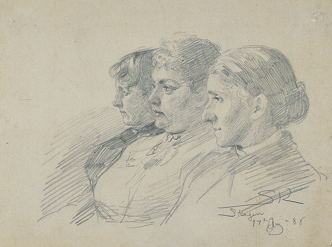 Vilhelmine Bramsen, Beatrice Diderichsen and Marianne Stokes. Drawing by Peder Severin Krøyer . 14 Aug. 1886